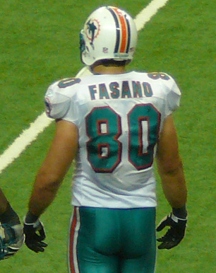 If used somewhere other than Wikipedia, Nelson, by name.